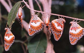 Pulilan Butterfly Haven